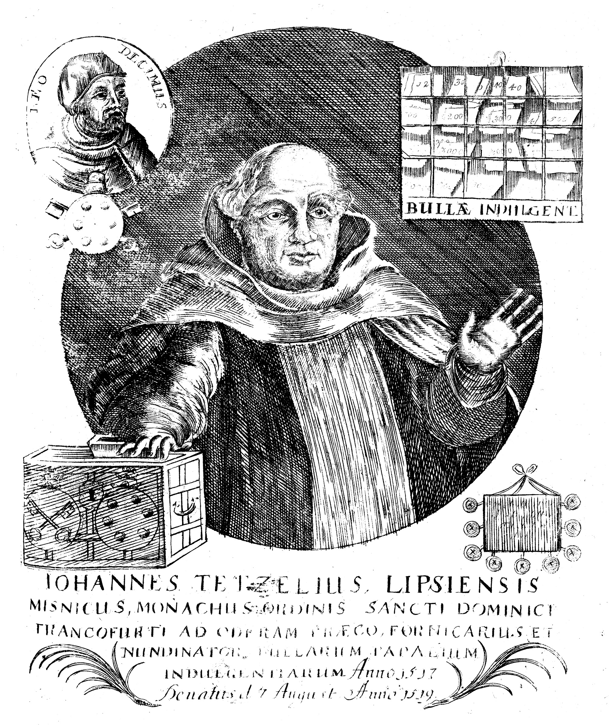 Portrait of Johann Tetzel (1465–1519) taking an oath. At the top left of the image is Pope Leo X (1475-1521), at the top right is the Pope Leo X’s papal bull Cum postquam ("When after") issued November 9, 1518, which defined the doctrine of indulgences and addressed the issue of the church to absolve the faithful from temporal punishment. At the lower left is an indulgence box for holding coins and at the lower right is an indulgence.